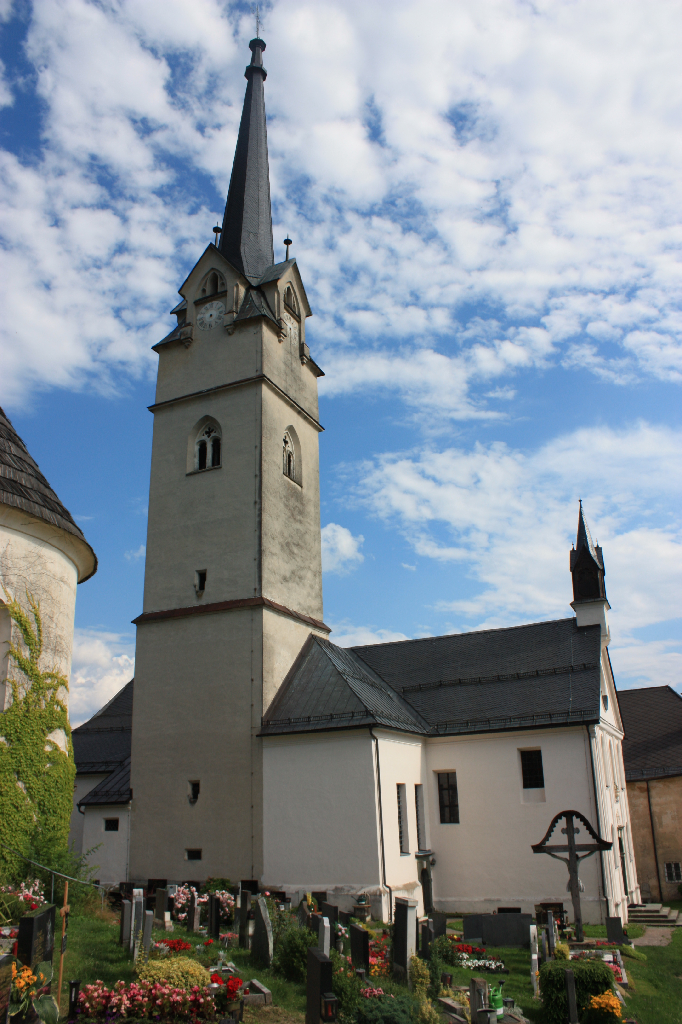 Parish church in Tainach Locality: Tainach Community: Völkermarkt